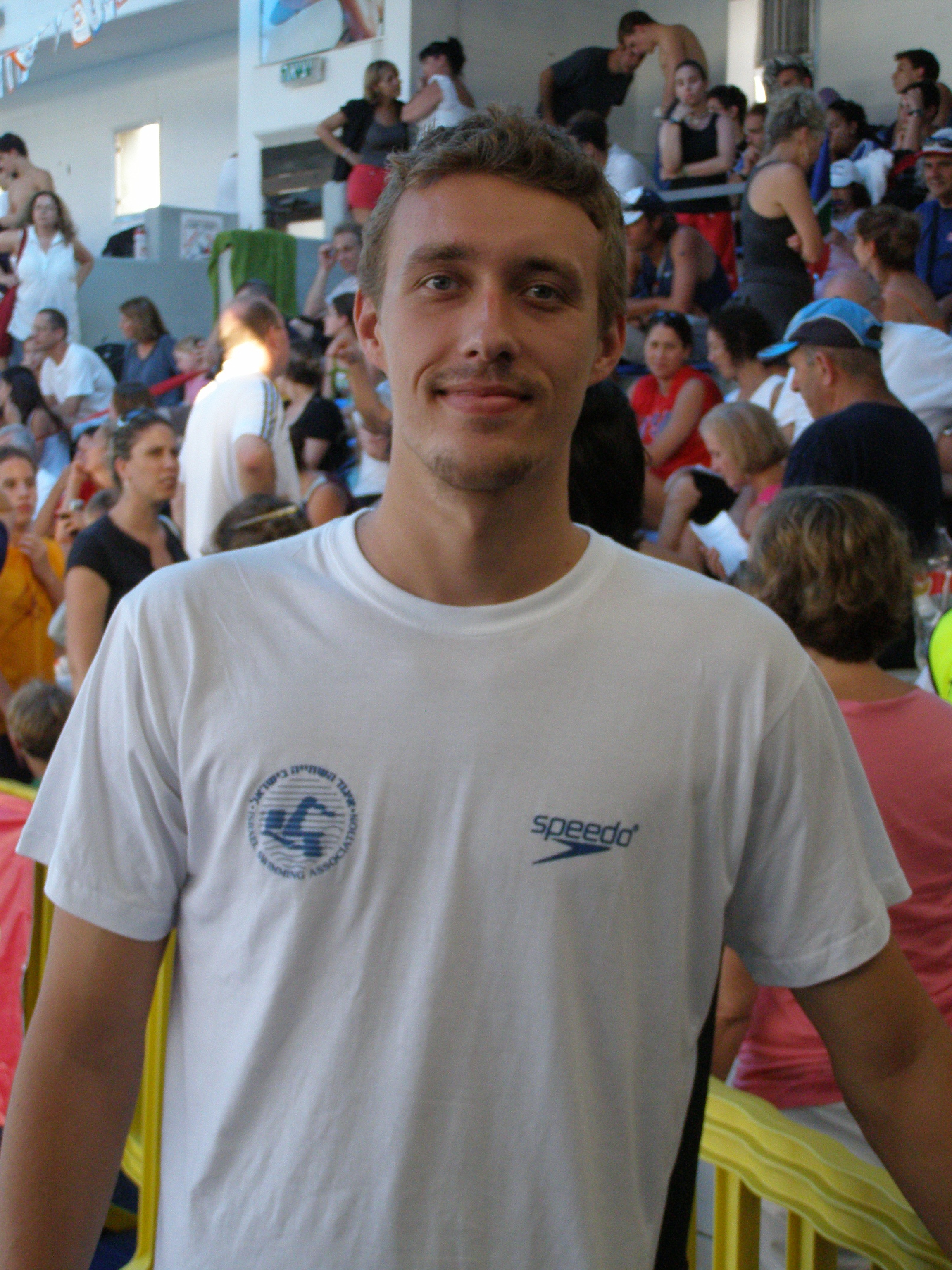 Ilia Ayzenshtok at tha Maccabiah games 07/2009